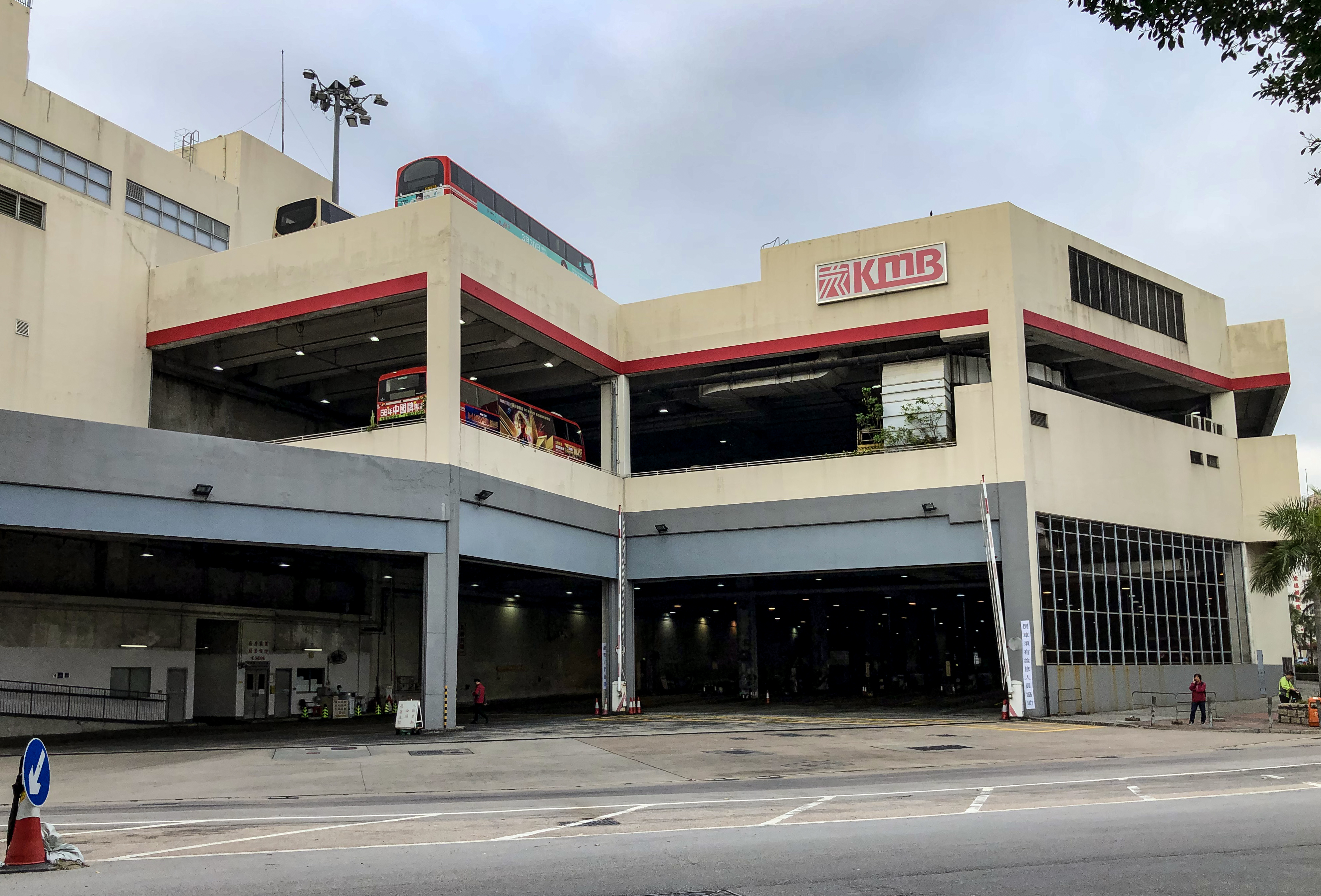 So this is the well-known L depot.